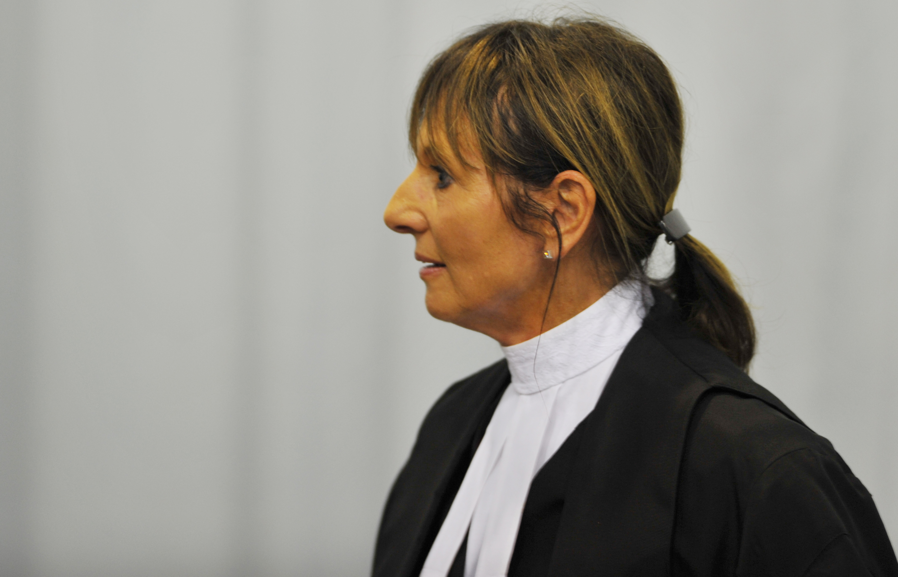 19 October 2011: Ieng Thirit's international Co-Lawyer Ms. Diana Ellis during the Trial Chamber's hearing on initial specification of civil parties' reparations claims and Ieng Thirith's fitness to stand trial.